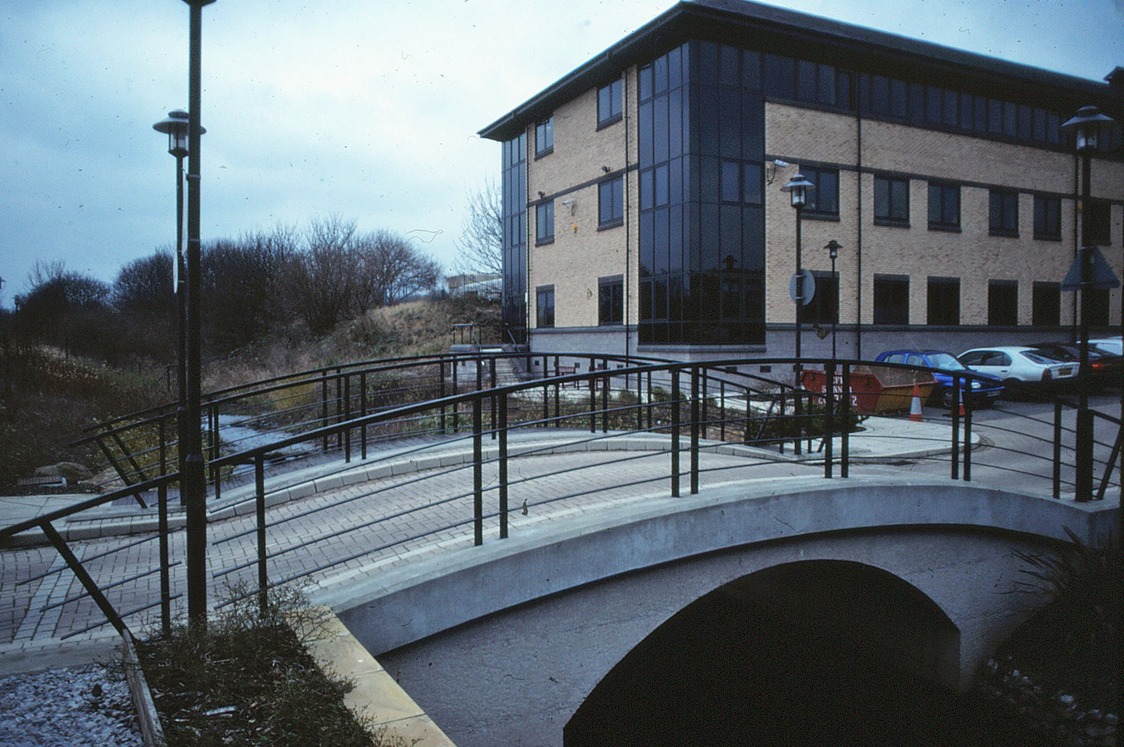 The rear of Waterside House off Kirkstall Road in Leeds, with a bridge going over the Kirkstall Goit. The Santa Cruz Operation had its development office for its XVision and Tarantella products there.